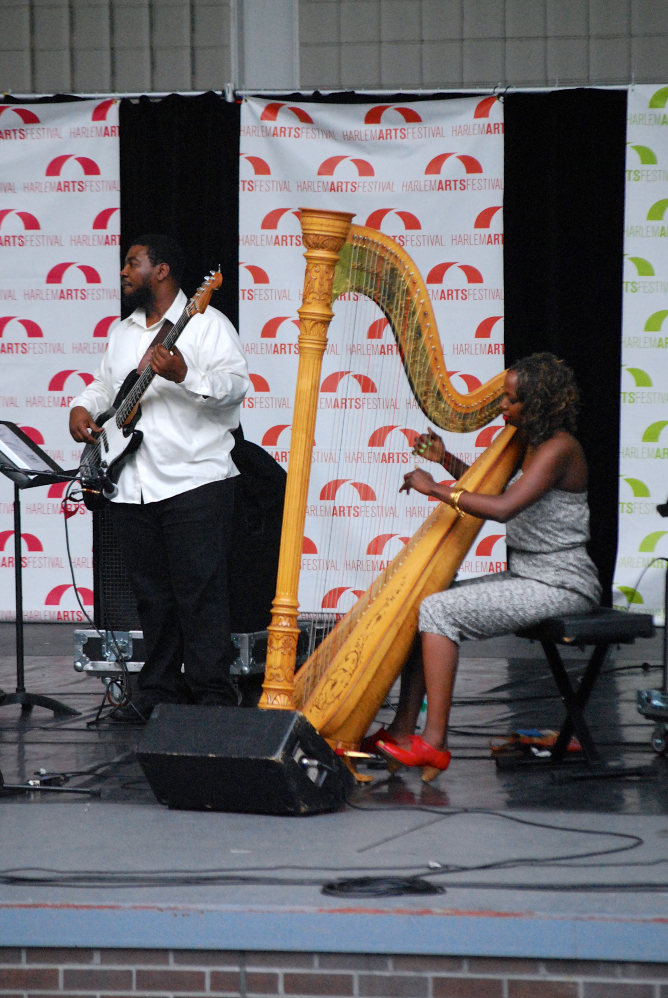 Dezron Douglas & Brandee Younger at the Harlem Arts Festival in 2013